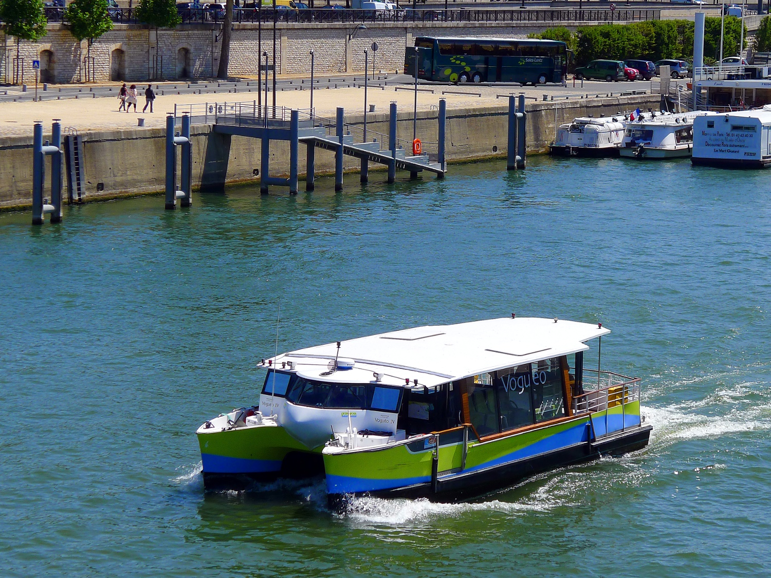 Vogueo - Paris